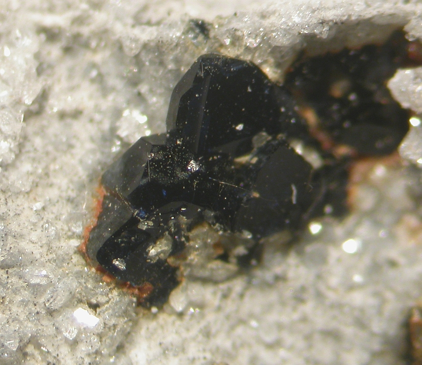 Osumilite Locality: Sakkabira, Osumi Peninsula, Kagoshima Prefecture, Kyushu Region, Japan Field of view 7 mm. Specimen and photo Leon Hupperichs.